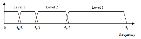 Frequency domain representation of the DWT (discrete wavelet transform). Česky: Frekvenční doména reprezentace DWT (diskrétní vlnková transformace).